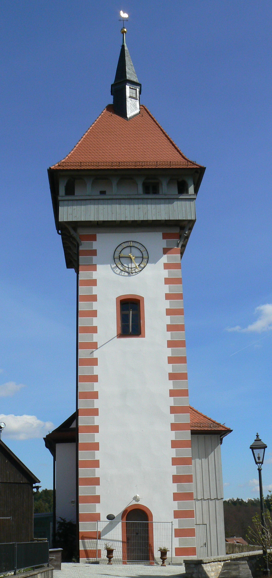 view of Hollfeld, Germany